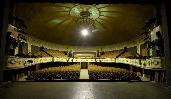 The auditorium of the Hungarian Theatre of Cluj